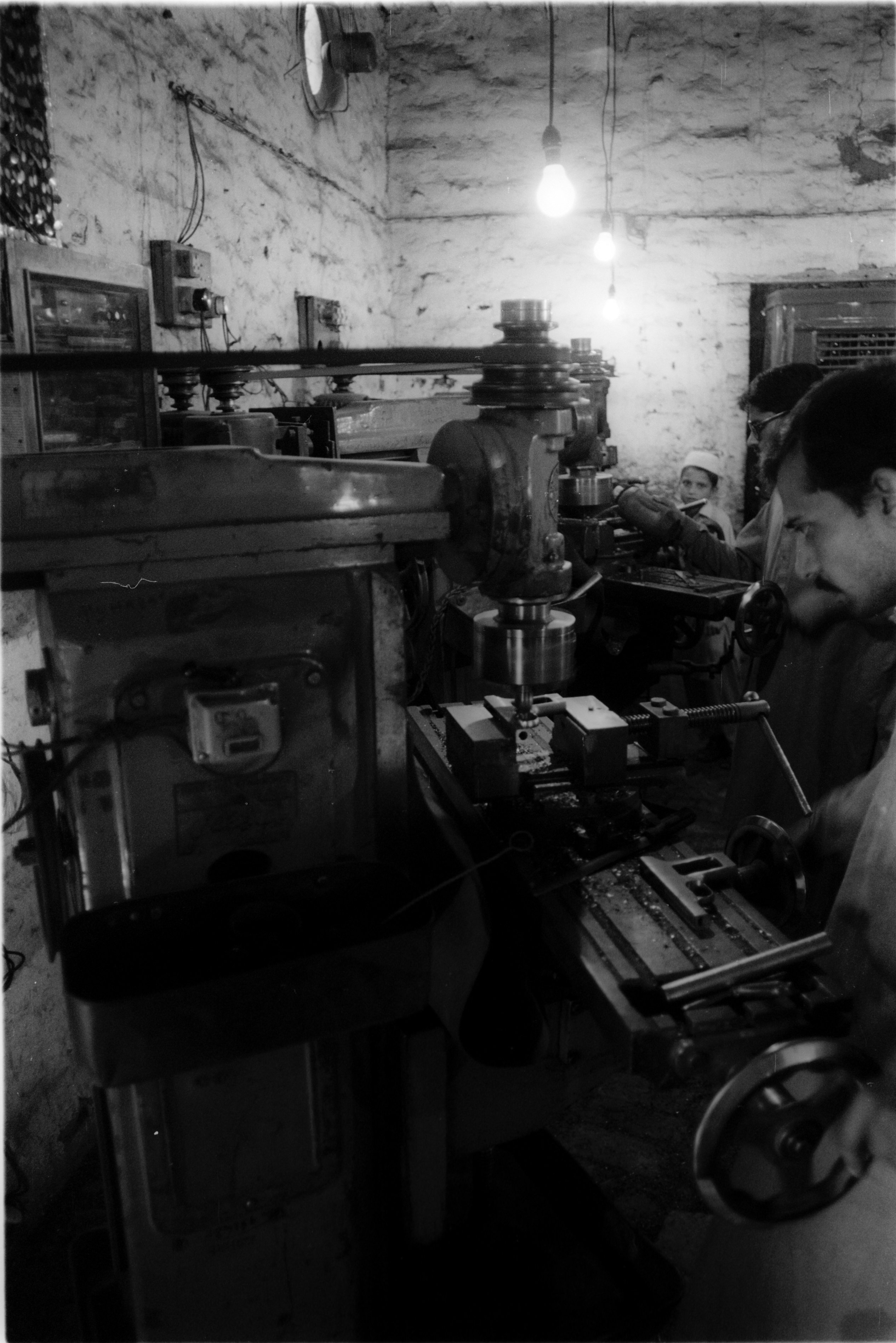 Gun workshop, Darra Adam Khel. Photo June 2001 by bluuurgh